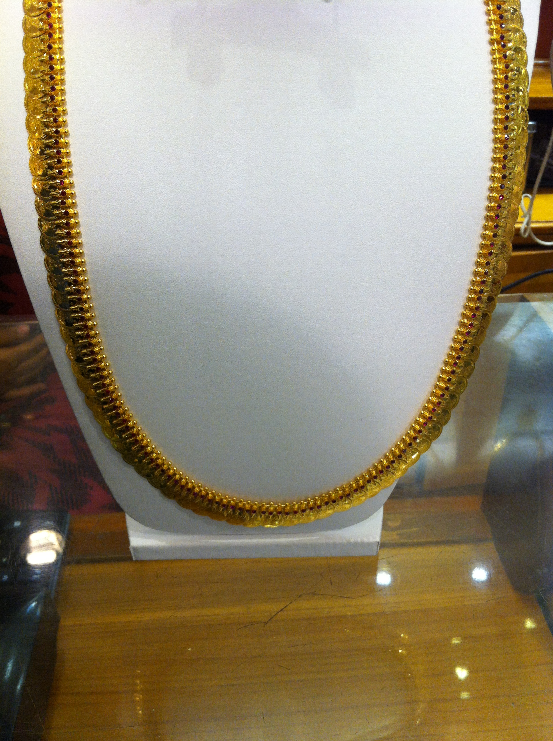 Jewellery of Tamil Nadu